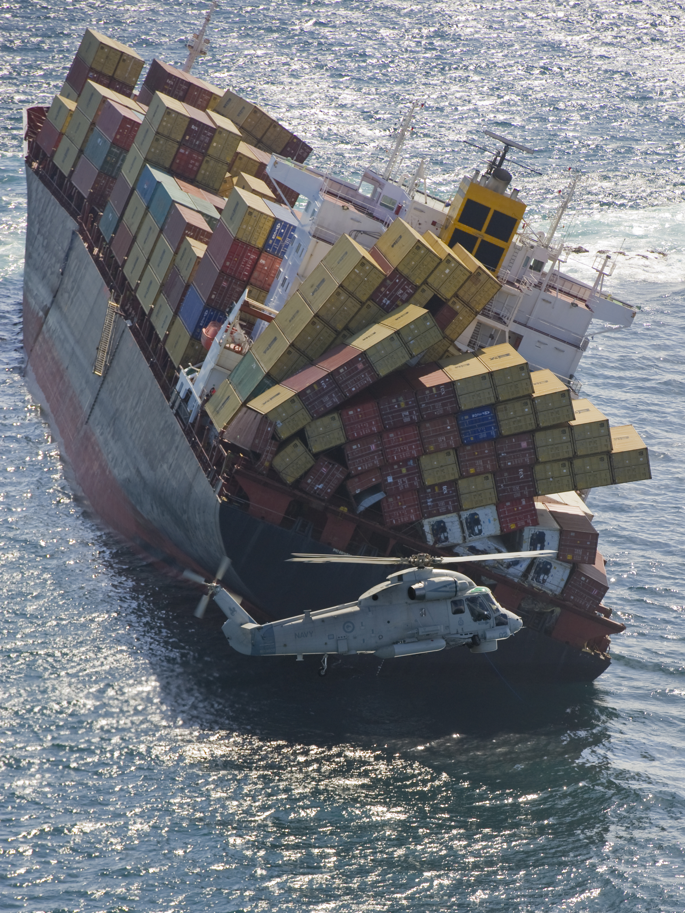 A Seasprite helicopter performs a recce flight over grounded ship Rena